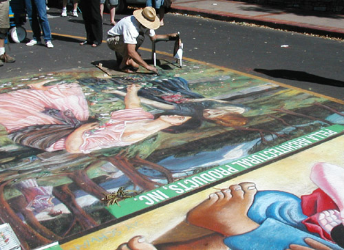 Finishing Touches: SLO Town's I Modinari. It looks like the women are trying to touch the artist.